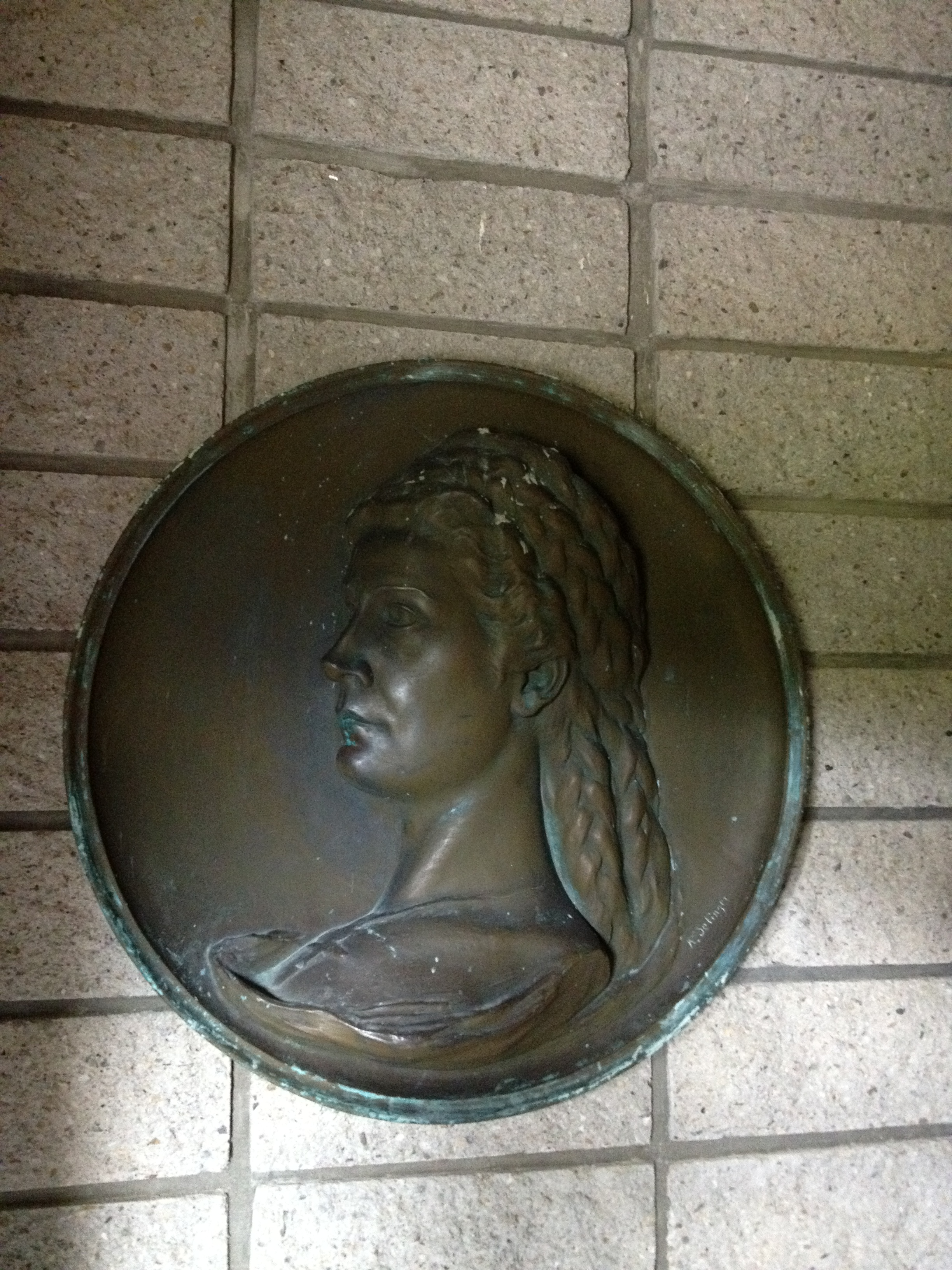 Bronze relief of Empress Elisabeth of Austria, Queen of Hungary, at the entrance of the Empress Elisabeth Memorial Church in Puchberg am Schneeberg, Lower Austria.